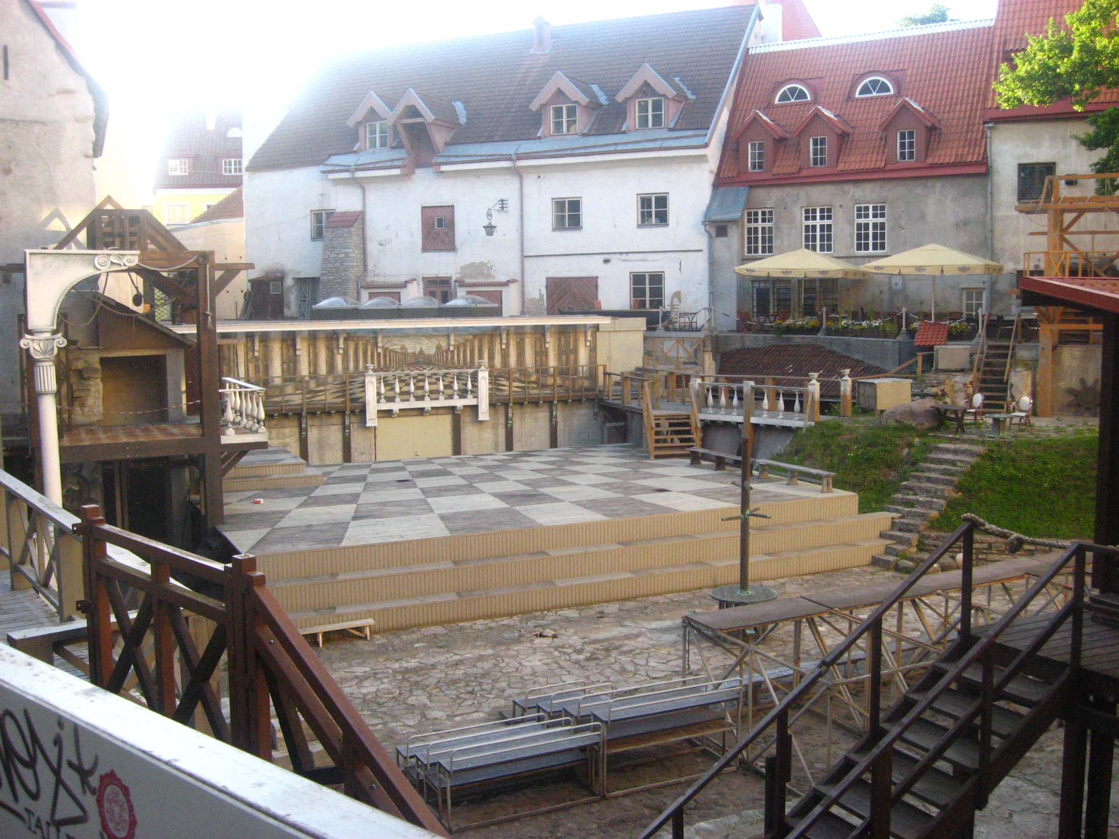 Open-Air Stage of Tallinn City Theater in TallinnEesti: Lavauuk, Tallinna Linnateater, Tallinn